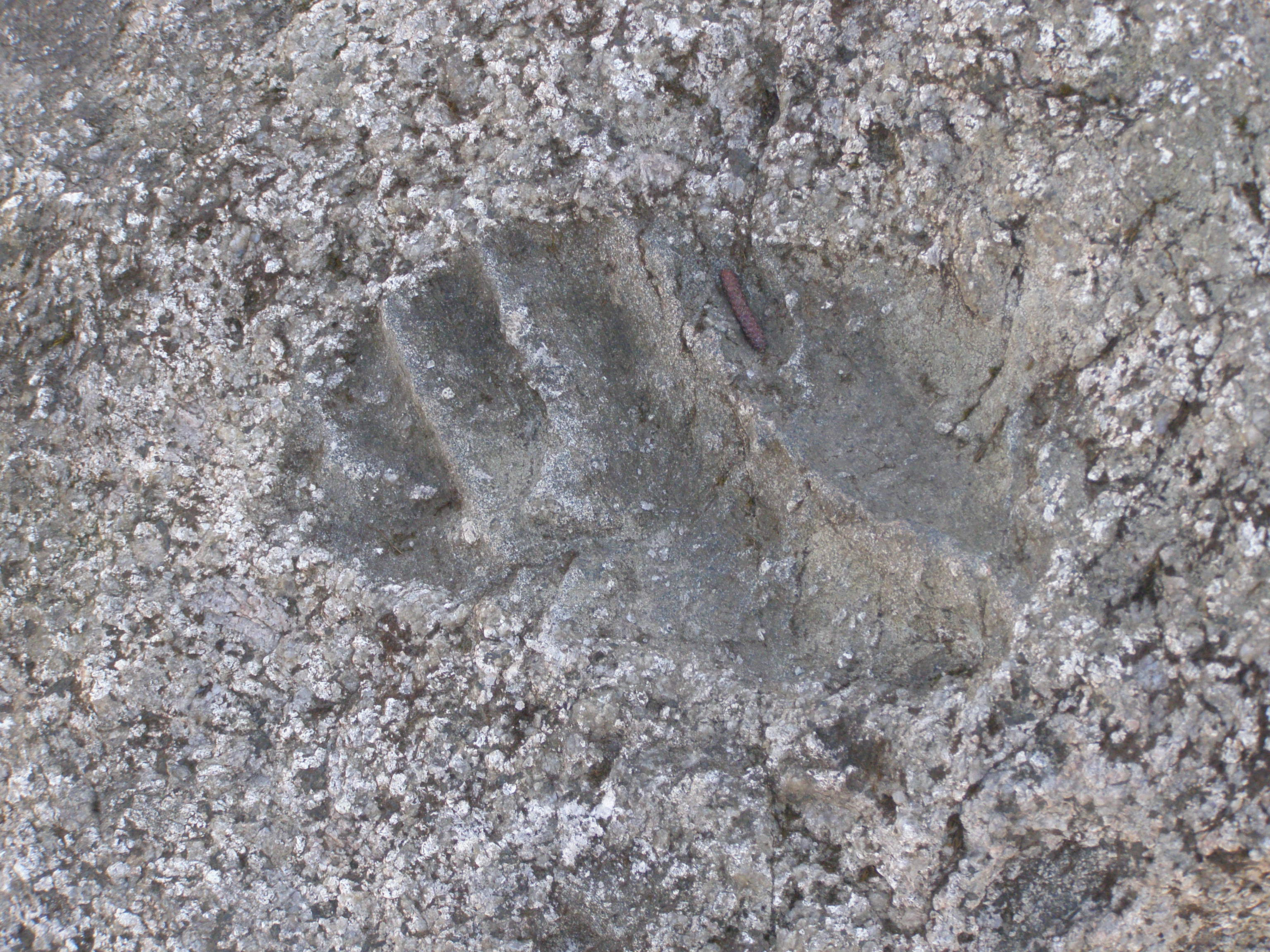 Kartena stone, Kretinga district, Lithuania